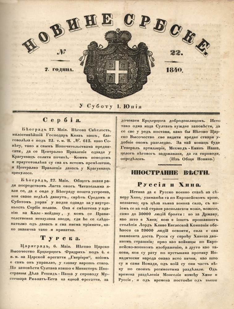 Serbian newspaper 1840